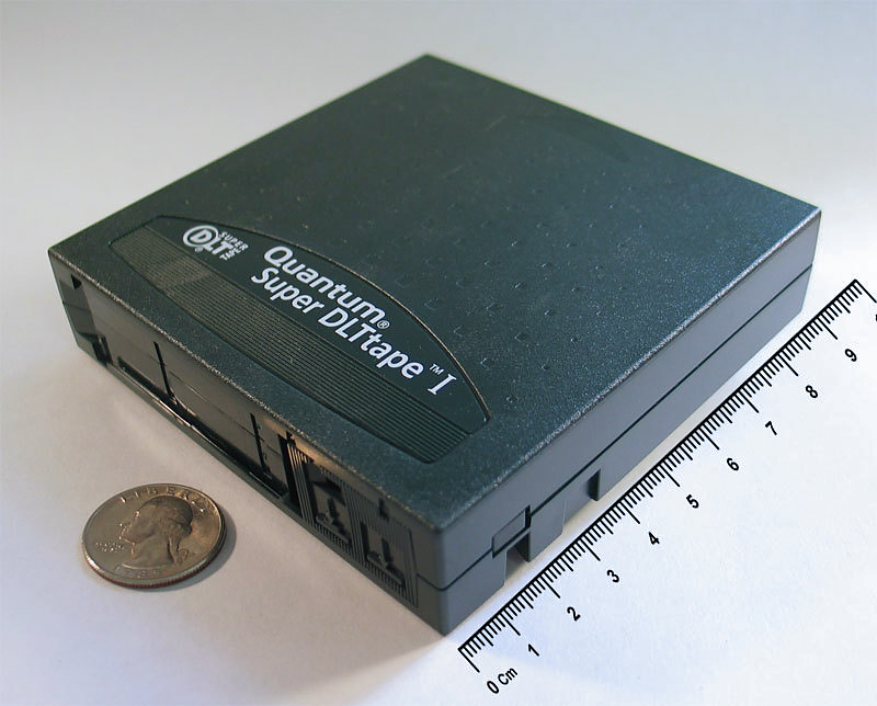 Moved image to a different wikiname. Original is: File:Sdlt 160 tape.jpg. Description: Photograph of a Super DLT I tape cartridge (capacity 160 GB). Tape cartridge shown with US Quarter to demonstrate scale. Photograph taken by Jared C. Benedict (aka redjar on Flickr) on 20 September 2004. Copyright: © Jared C. Benedict. Licensed under the [Creative Commons] license by photographer Jared C. Benedict (myself).